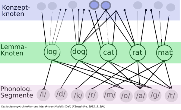 interactive activation model (Dell 1986)